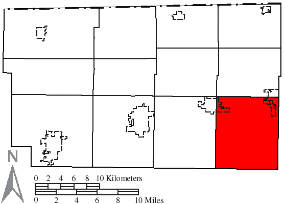 Made by the US Census and modified by myself